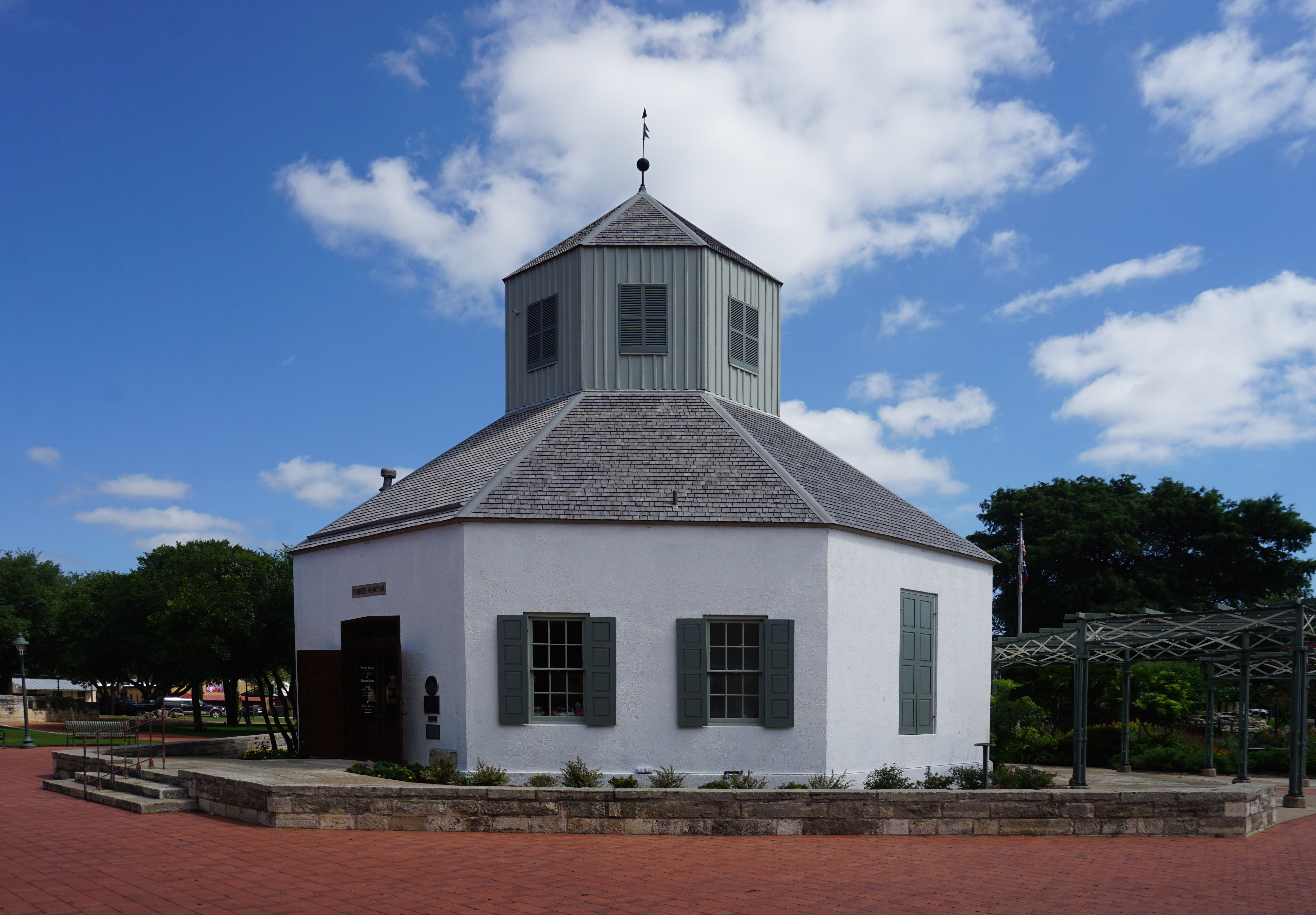 The exterior of the Vereins Kirche in Fredericksburg, Texas (United States).